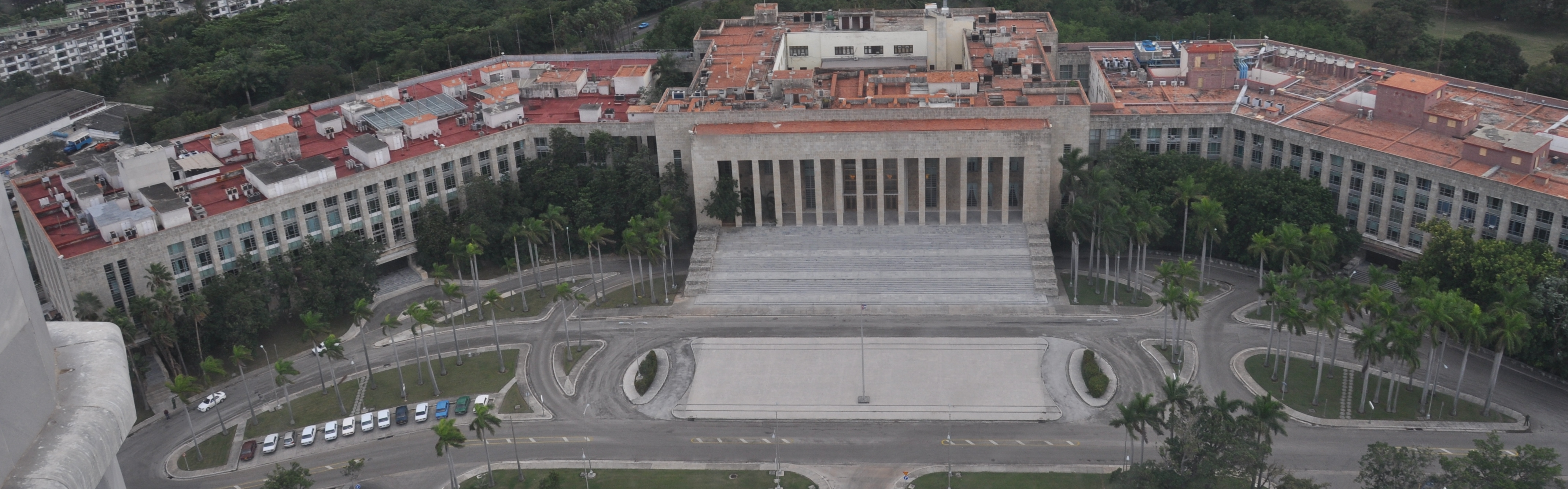 Building of Cuban's Communist Party Central Commitee (Havana, Plaza de la Revolución)